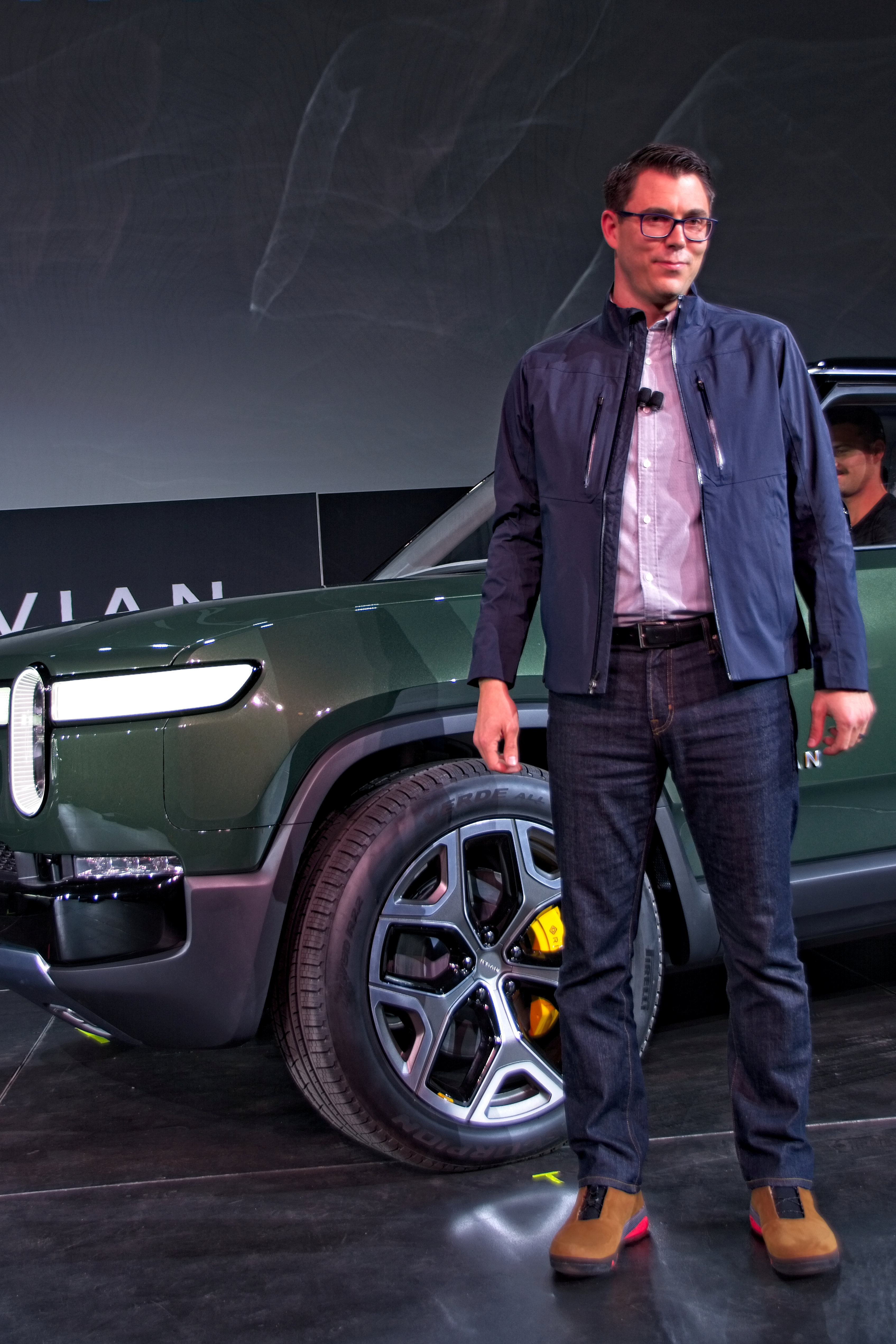 Rivian founder and CEO Robert "RJ" Scaringe at the debut of the Rivian R1S SUV at the 2018 Los Angeles Auto Show, November 27, 2018. if using this image